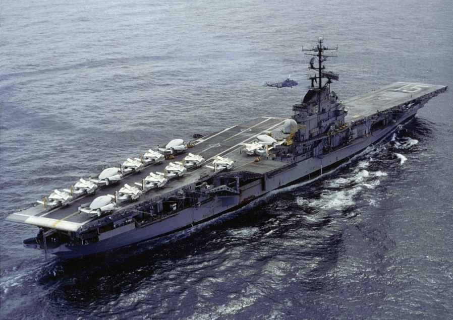 The U.S. Navy aircraft carrier USS Randolph (CVS-15) in 1967. On deck are aircraft of Carrier Anti-Submarine Air Group 56 (CVSG-56). A Sikorsky SH-3D Sea King of Helicopter Anti-Submarine Squadron HS-3 Tridents is approaching the ship.